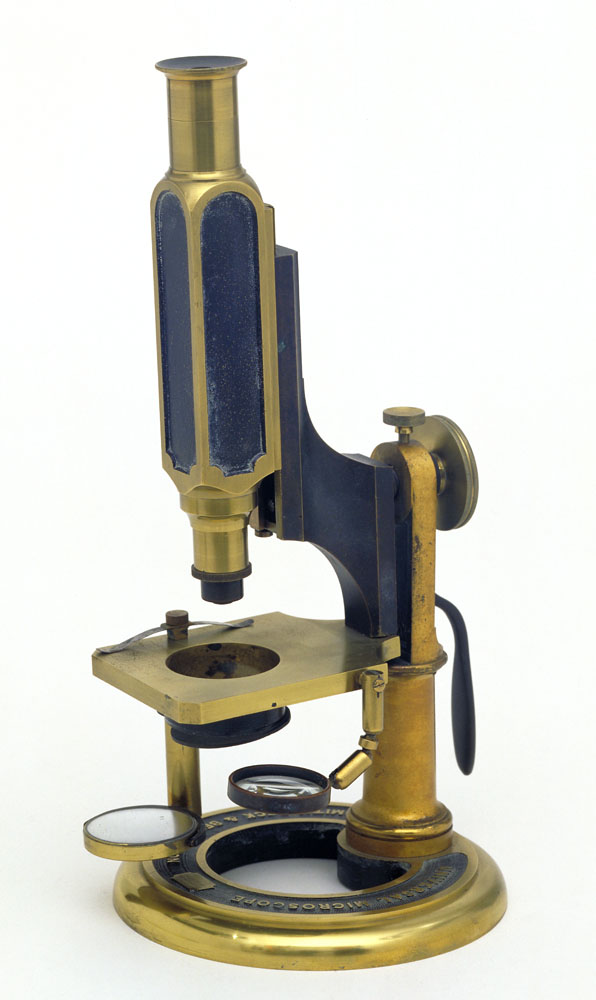 Author Smith, Beck & Beck firmDescription